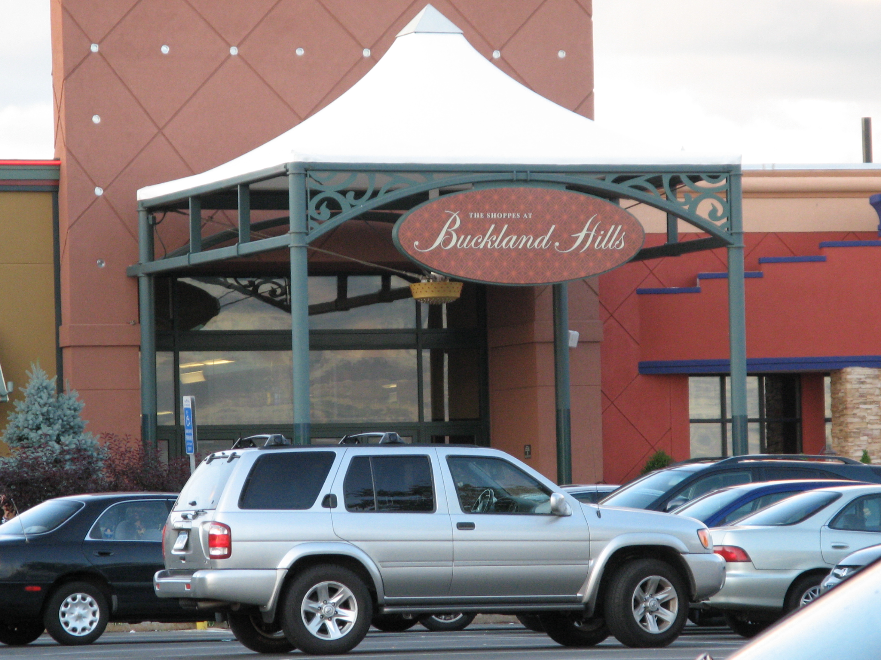 One of the main entrances to The Shoppes at Buckland Hills mall in Manchester, Connecticut USA